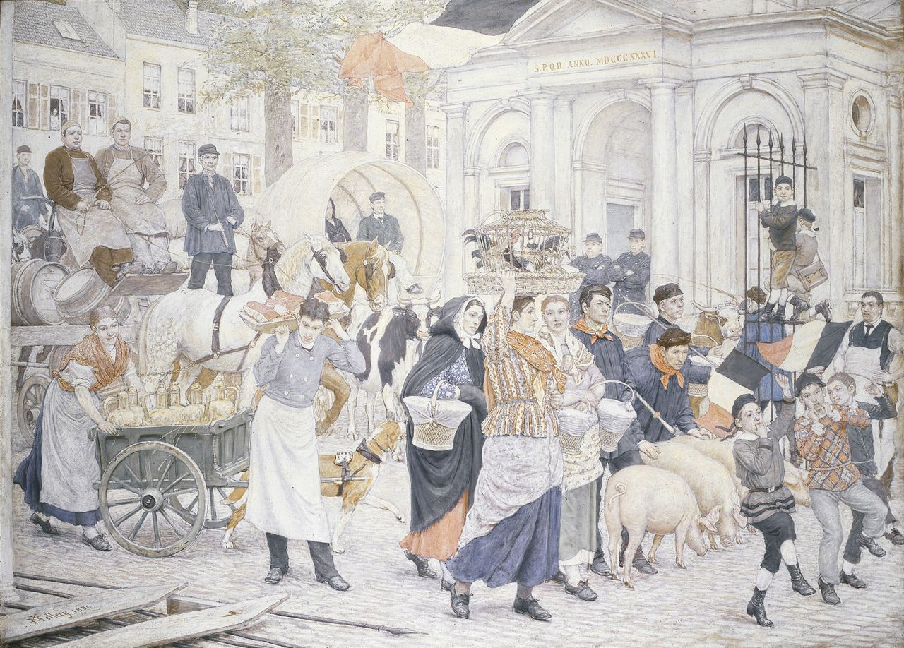 Litho by Mellery: Suppression of the Brussels octroi in 1860